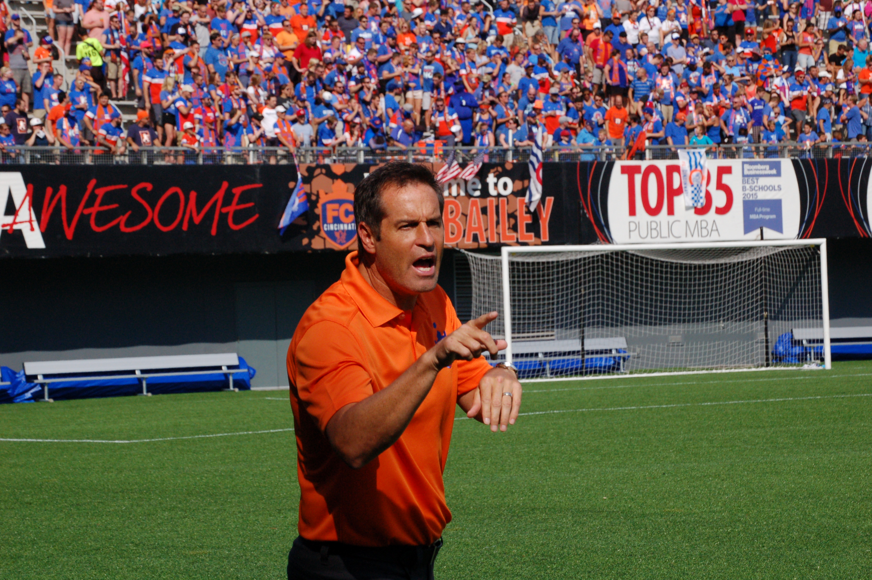 John Harkes Taken during a USL regular season match between FC Cincinnati and Saint Louis FC at Nippert Stadium in Cincinnati, USA on September 5, 2016.